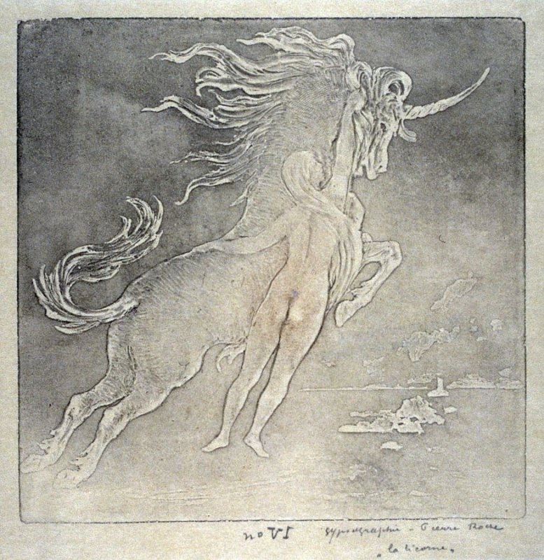 La licorne (1920): gypsograph on Japanese pape, by Pierre Roche (1855-1922)